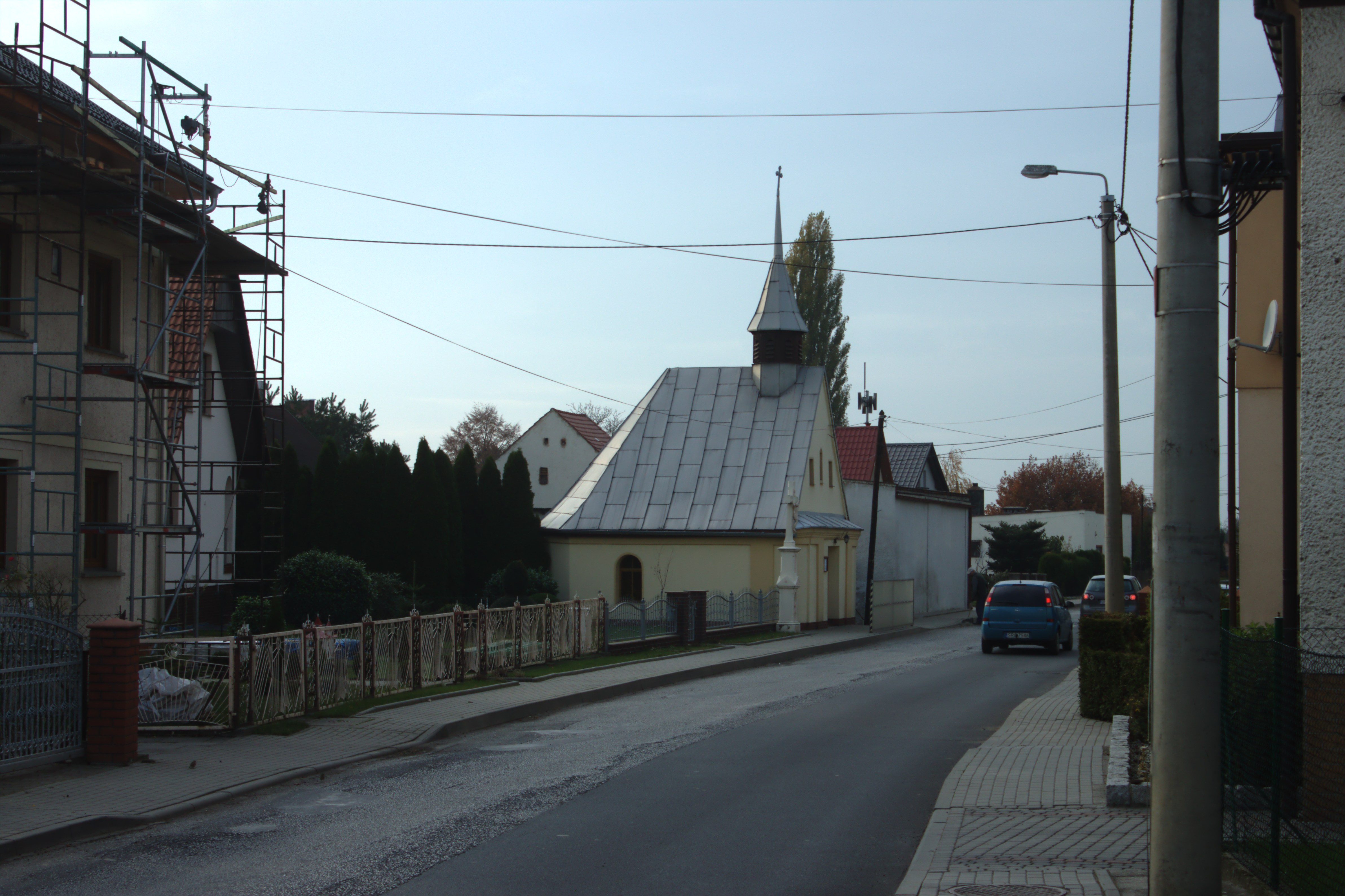 Main road with a chapel in Lekartów, Opole Voivodeship, Poland